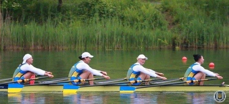 In Lucerne (Switzerland), at the European Olympic Qualification Ukrainian rowers Anastasiya Kozhenkova, Daryna Verkhohlyad, Olena Buryak, Euvheniya Nimchenko claimed the second place. Their result was 6:20.67. They qualified for Rio 2016.